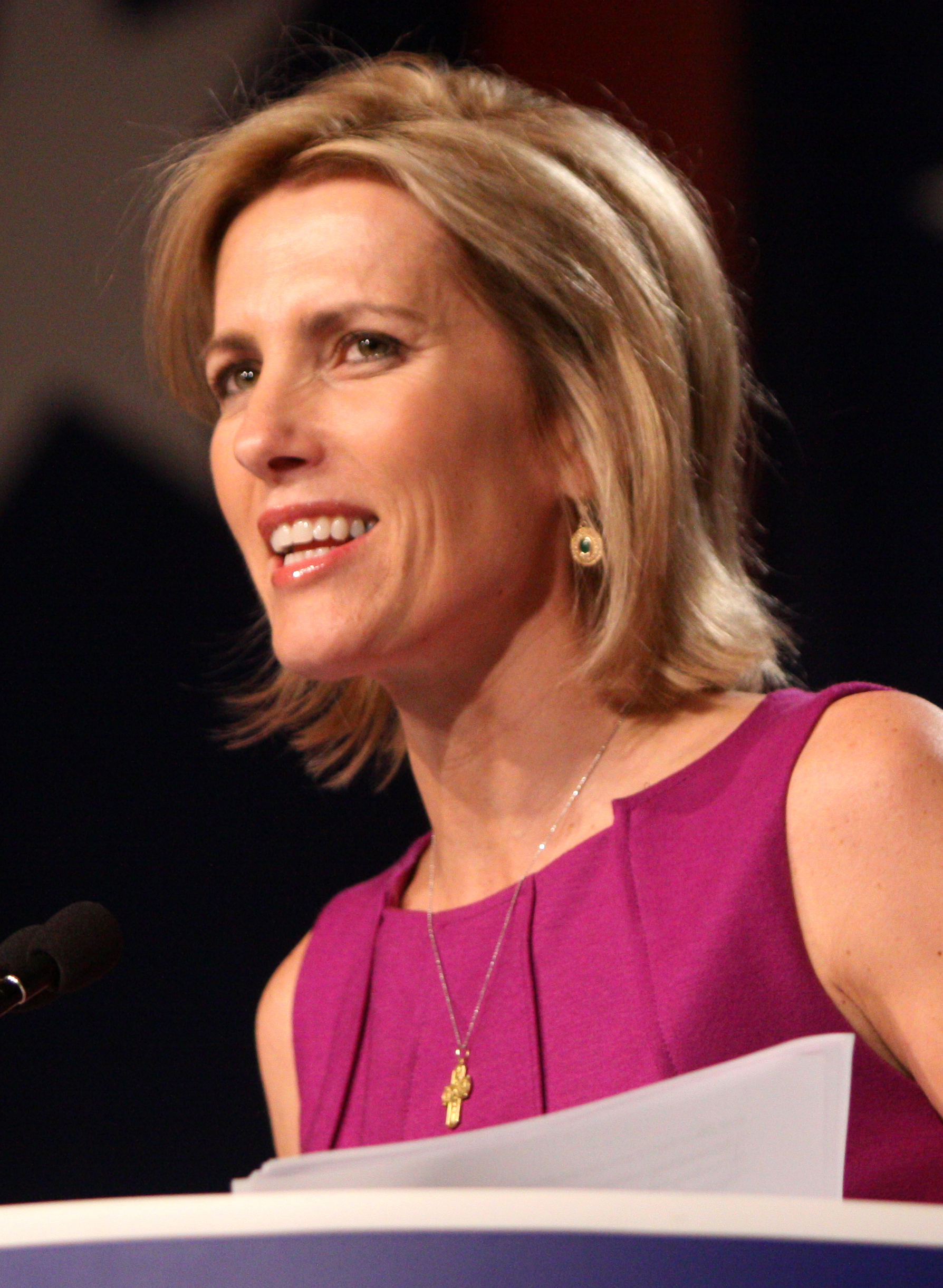 Laura Ingraham speaking at the Values Voter Summit in Washington D.C. on October 7, 2011.